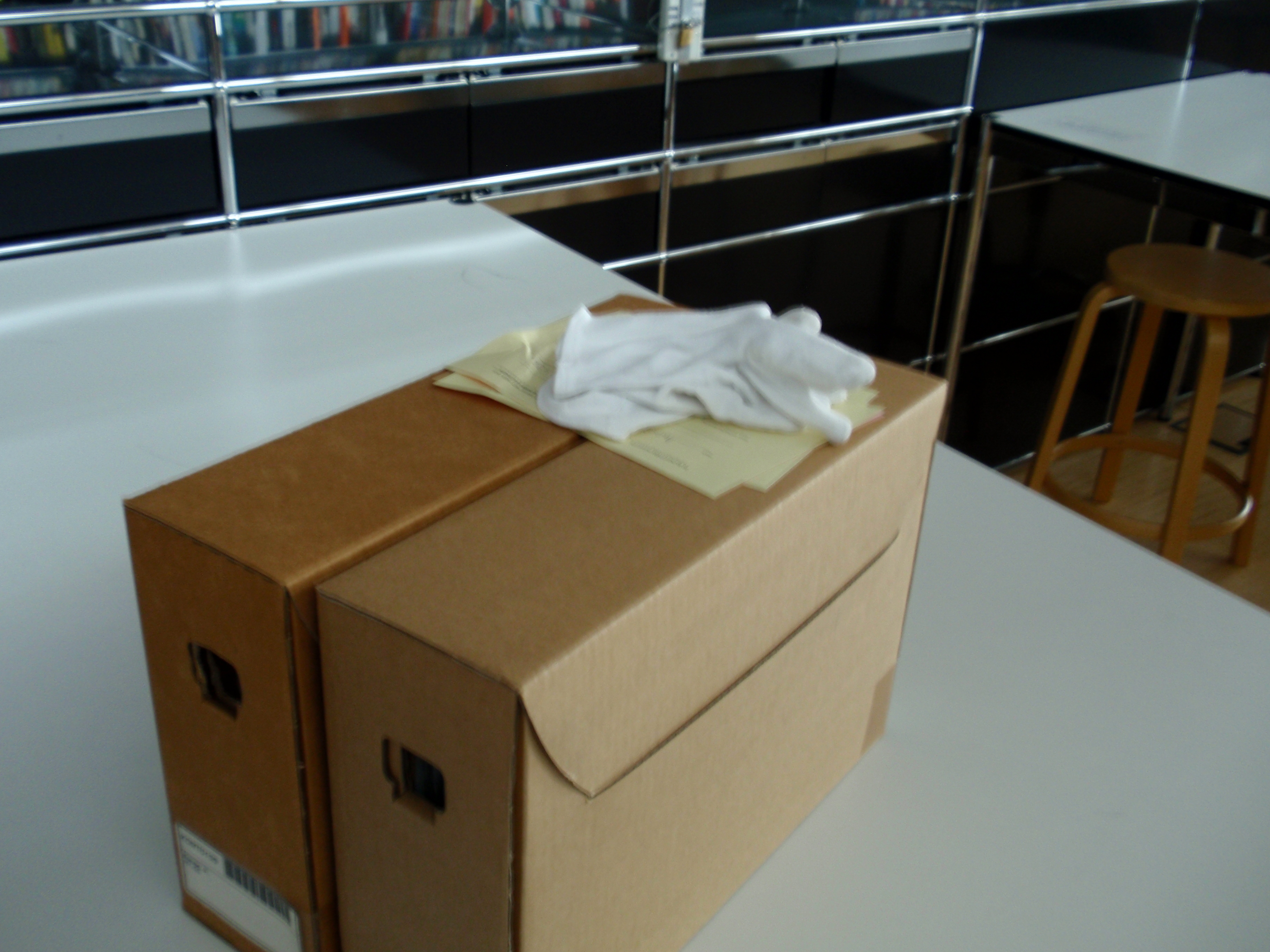 A set of two archive boxes in the Netherlands Architect Institute library